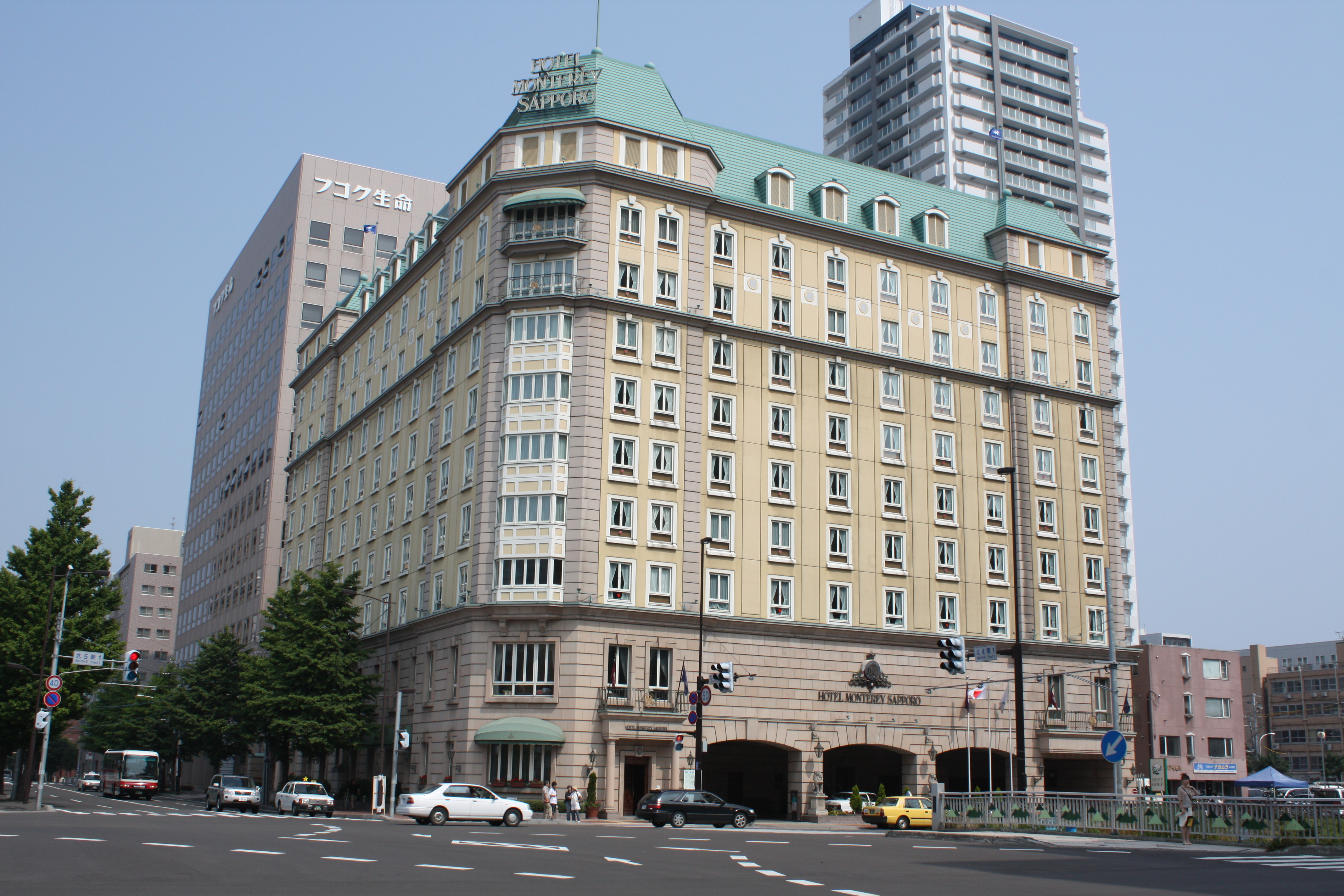 Hotel Monterey Sapporo (Sapporo, Hokkaidō, Japan)